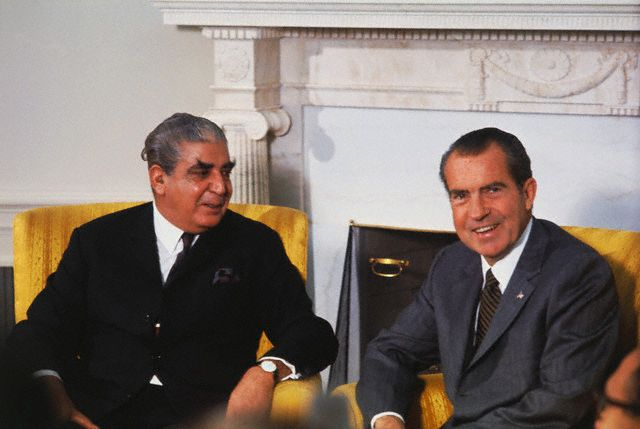 President of Pakistan Yahya Khan with United States President Richard Nixon during the third President of Pakistan visit to the U.S. in October 1970